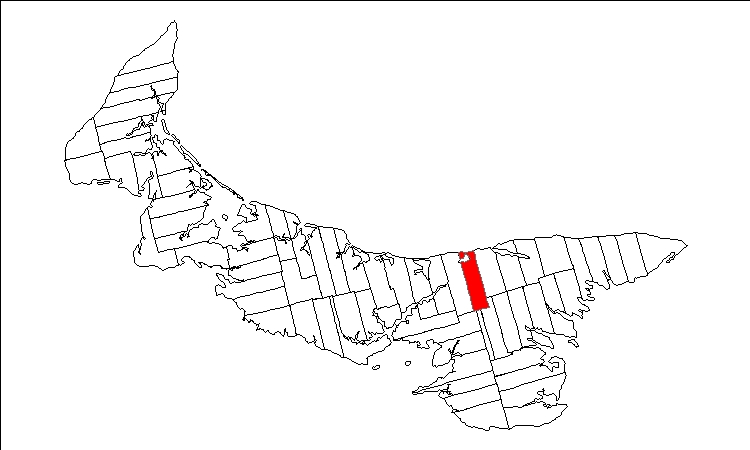 Public domain map of Prince Edward Island created by User:Plasma east with data courtesy of Geogratis, modified to show townships. Released under GFDL (self).